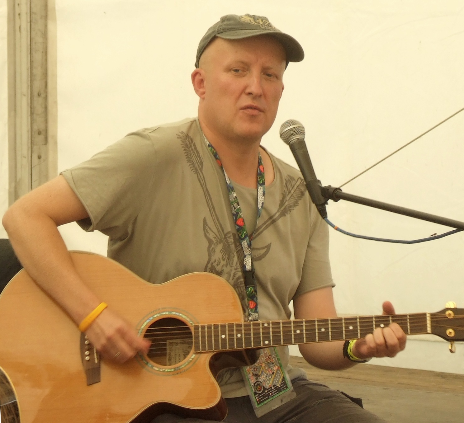 Piotr Bukartyk - Polish singer-songwriter, comic, and radio DJ leading guitar workshops at Przystanek Woodstock Festival in Kostrzyn